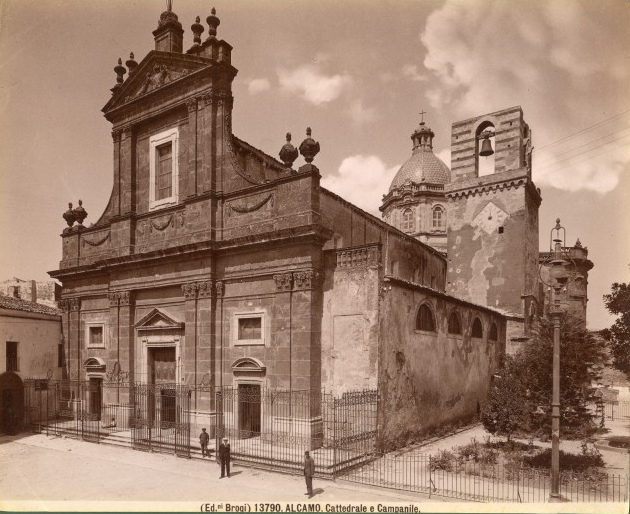 Carlo Brogi (1850-1925) - "Alcamo - Cathedral and church tower". Catalogue # 13.790.